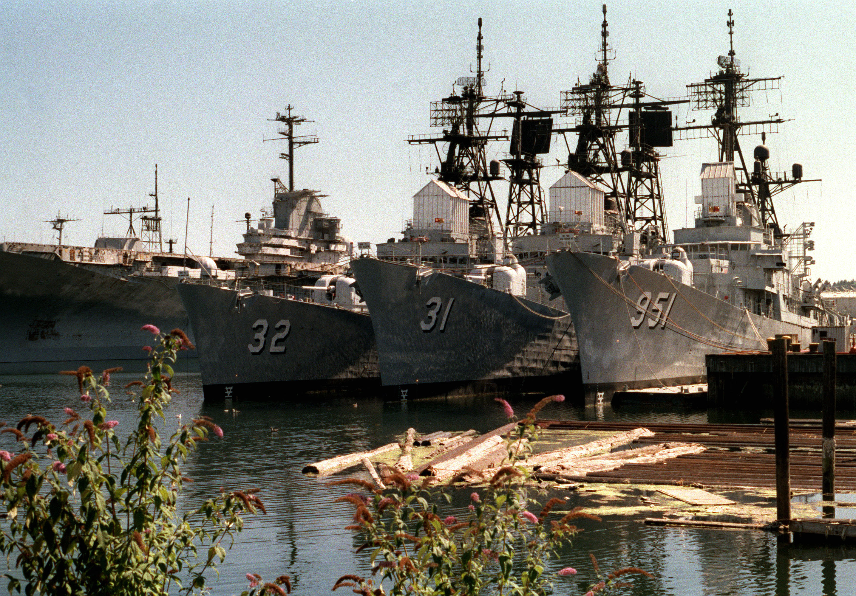 The U.S. Navy guided missile destroyer USS John Paul Jones (DDG-32), the guided missile destroyer USS Decatur (DDG-31) and the destroyer USS Turner Joy (DD-951) laid up at the Naval Inactive Ship Maintenance Facility at the Puget Sound Naval Shipyard, Bemerton, Washington (USA), in 1990. In the background at left is the aircraft carrier USS Bon Homme Richard (CVA-31).